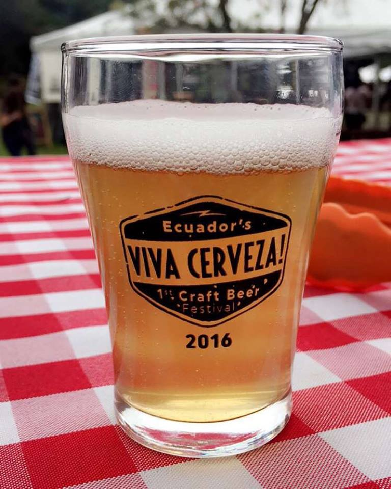 Sample beer glass from Ecuador's 1st Craft Beer Festival, hosted in 2016 in Quito, Ecuador. Over 30 breweries participated in this epic event.